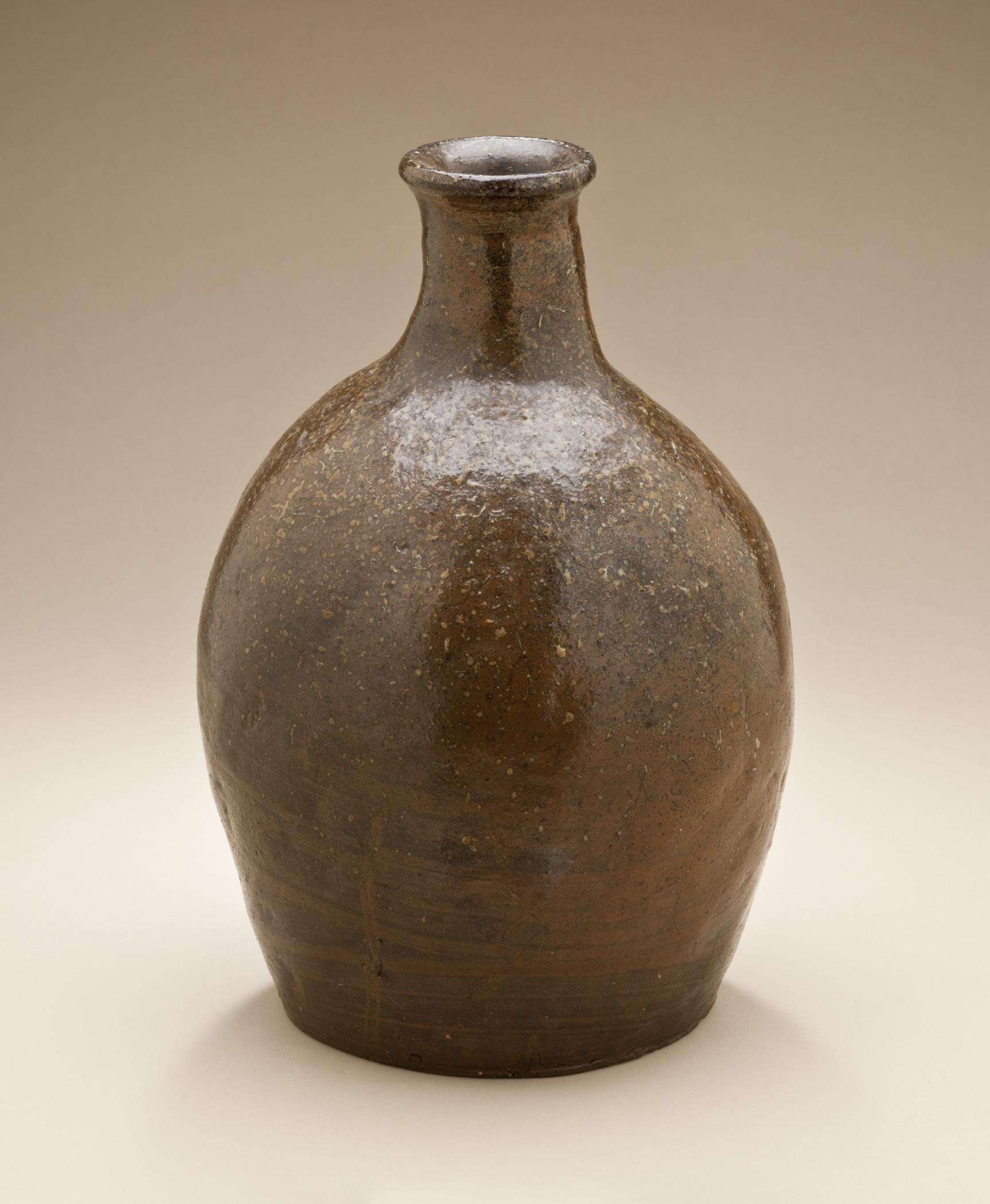 Japan, Momoyama period, 1573-1615, late 16th century Alternate Title: Tokkuri Furnishings; Accessories Echizen ware; stoneware Gift of James D. and Veronica H. Roorda (M.2008.264.5) Japanese Art